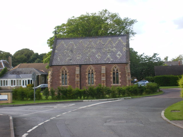 Euxton Hall, Building This building looks as if it was the private chapel to the hall, when it was a private house